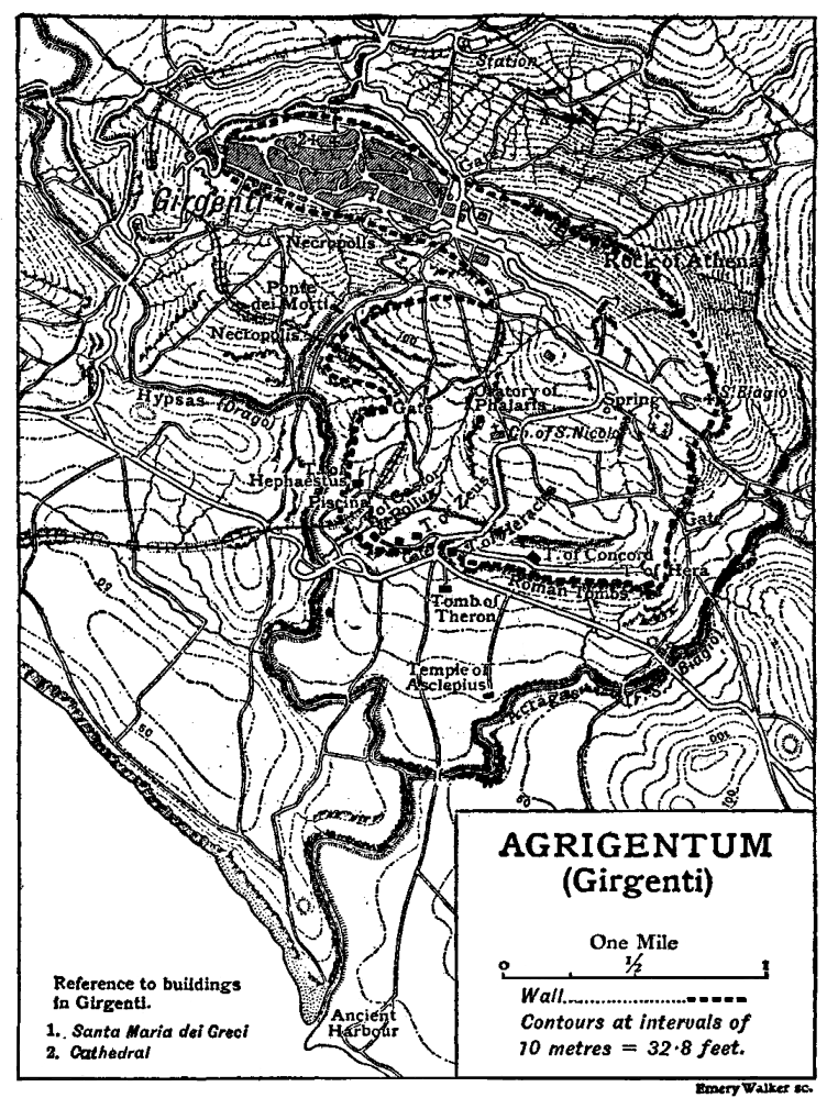 A map of Agrigentum found in Encyclopædia Britannica's entry on Agrigentum.